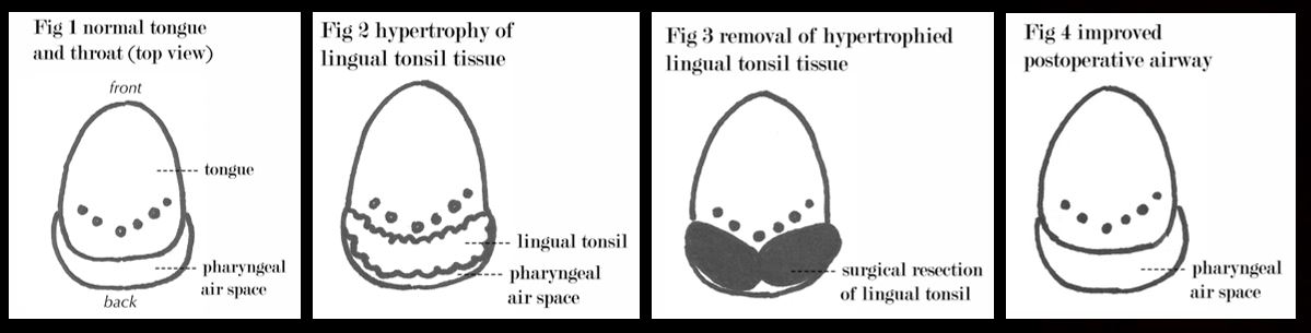 This is a diagram of four images showing the anatomical structures that are removed during a lingual tonsillectomy.